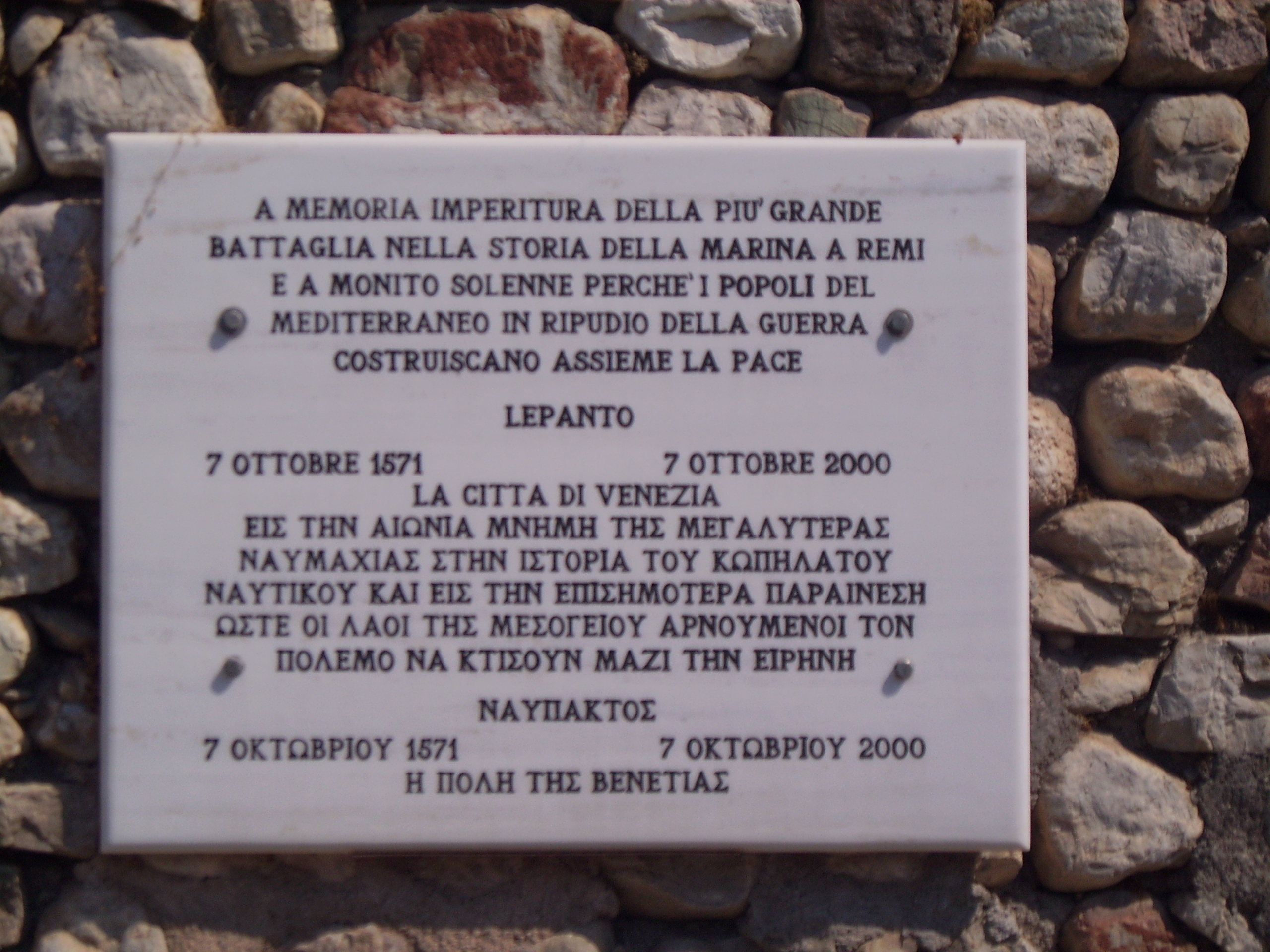 Venecian inscription of Battle of Lepanto in Naupactus or Nafpaktos or Ναύπακτος or Lepanto, Greece